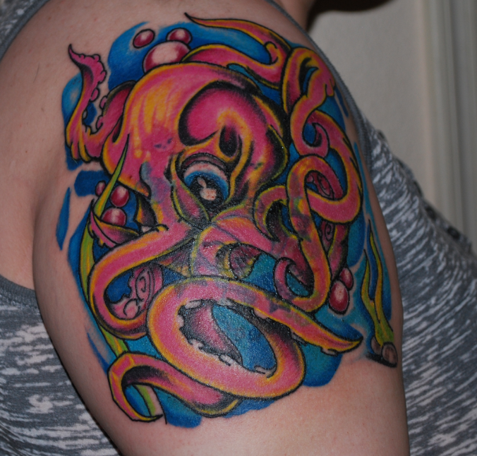 Tattoo of an octopus done in the New School style. Tattoo was done by Neil Roberts of Rebel Ink Tattoo in Goodyear, Arizona.